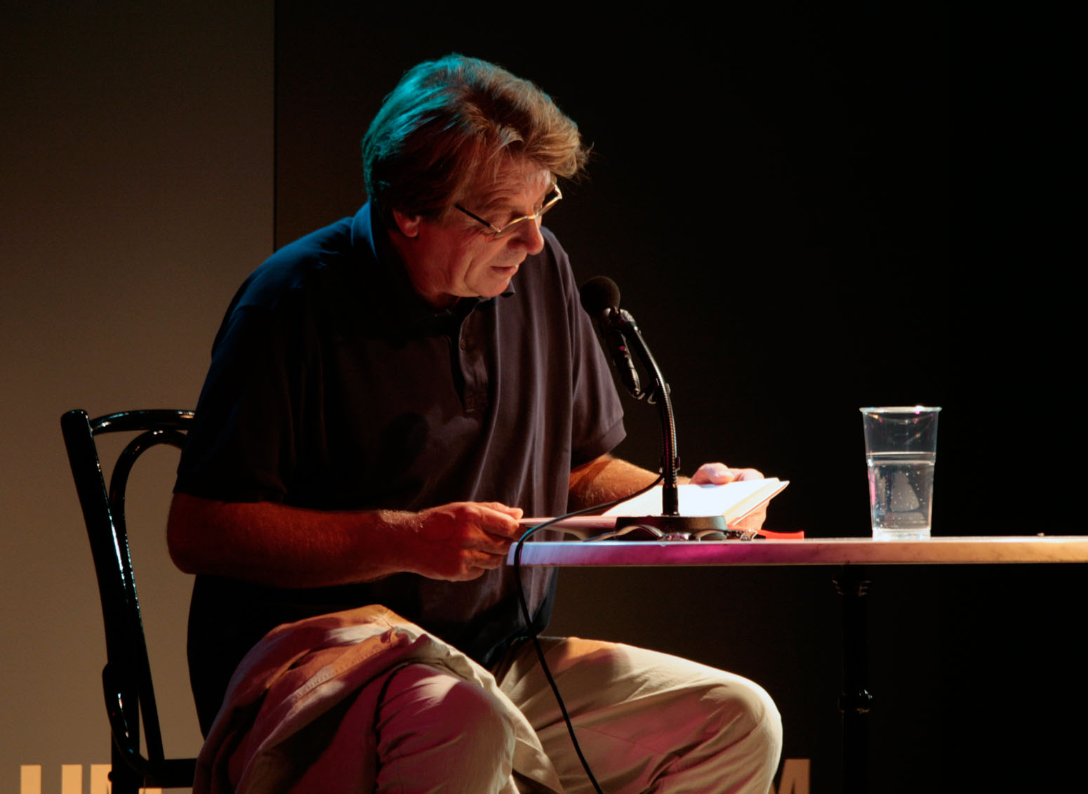 Writer Peter Rosei reading from 'Das große Töten' (literary evening "Rund um die Burg" 2009 near the Burgtheater in Vienna).